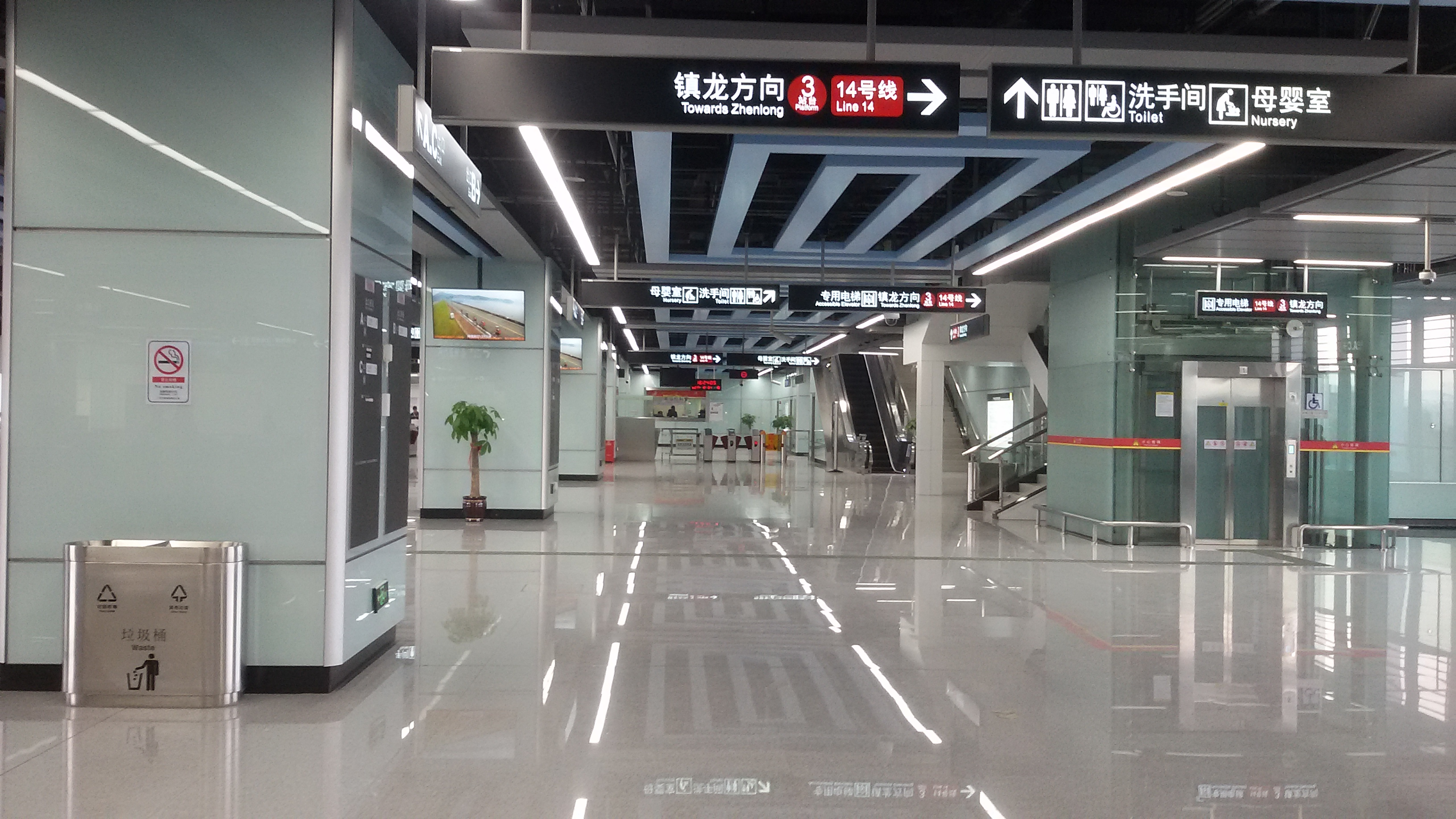 Station Concourse for Xinhe Station in Guangzhou Metro.